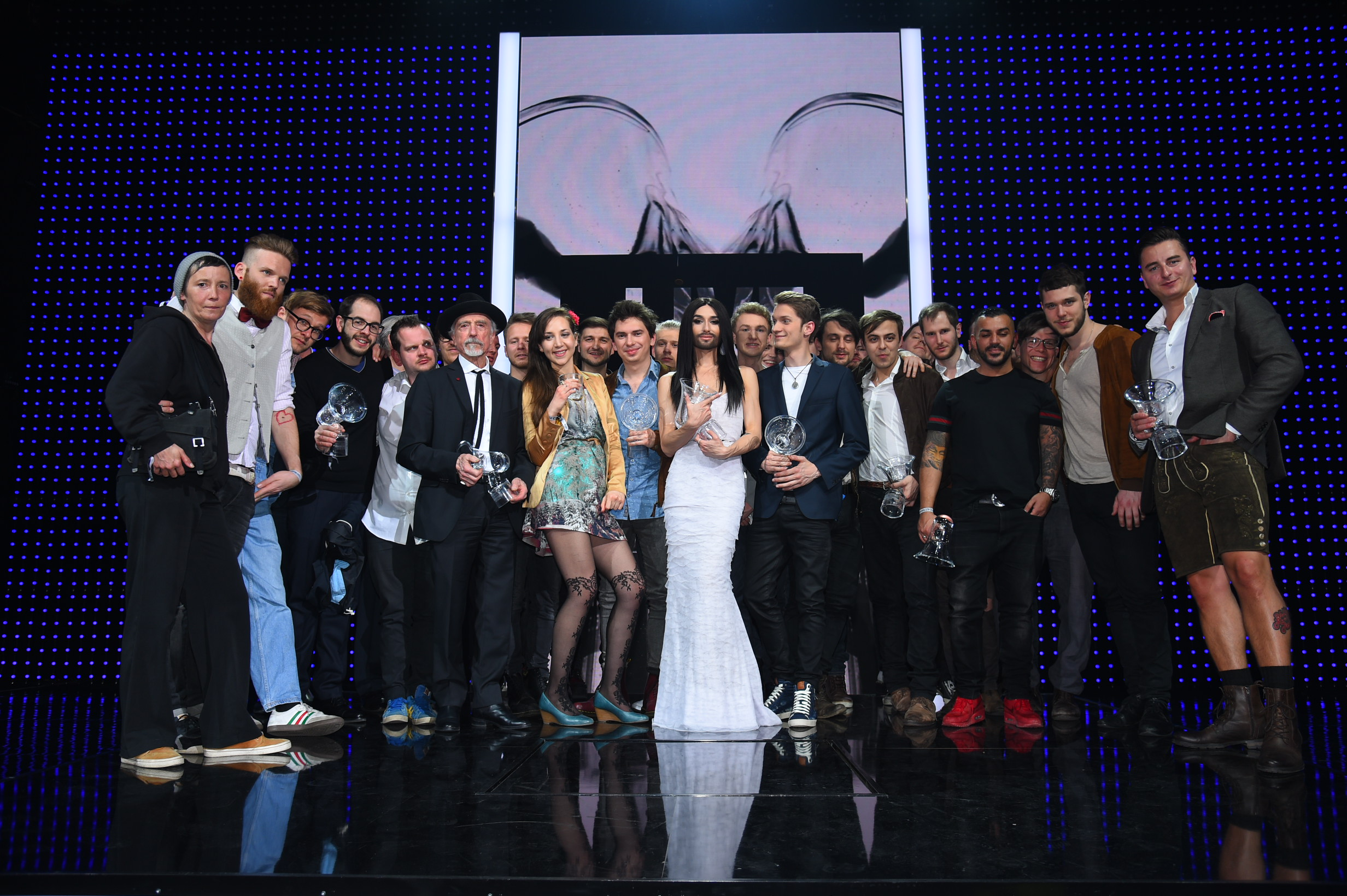 Amadeus Music Awards 2015,Volkstheater, Wien, 29.3.2015, ALL WINNERS